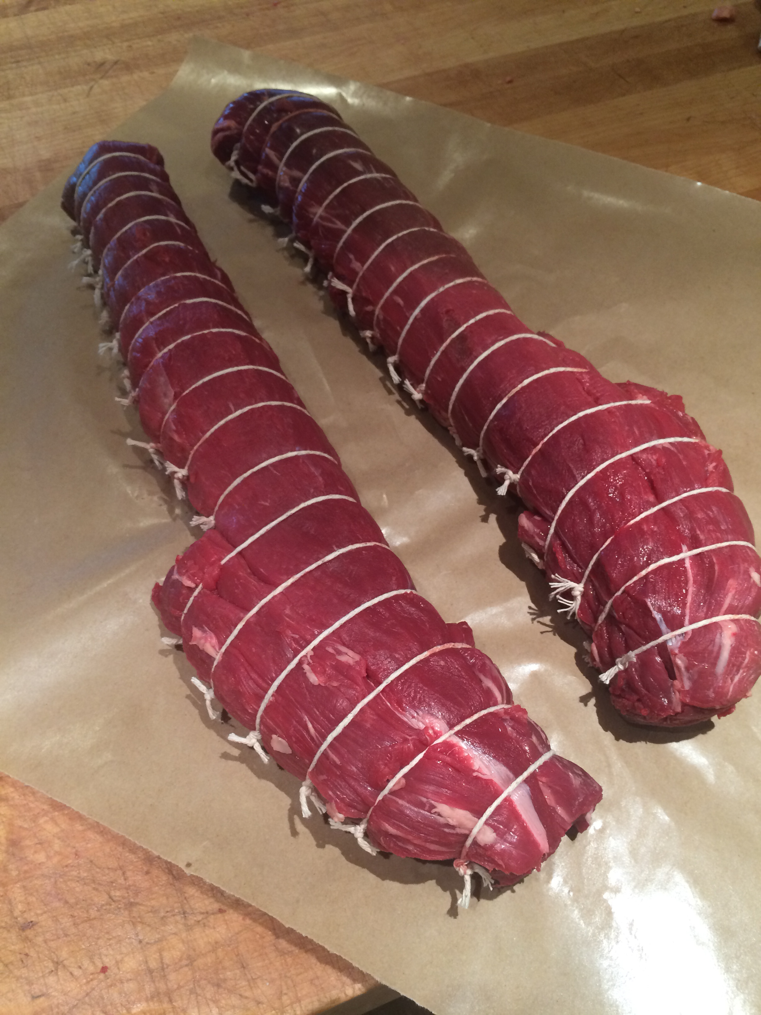 Beef tenderloin tied and ready to roast